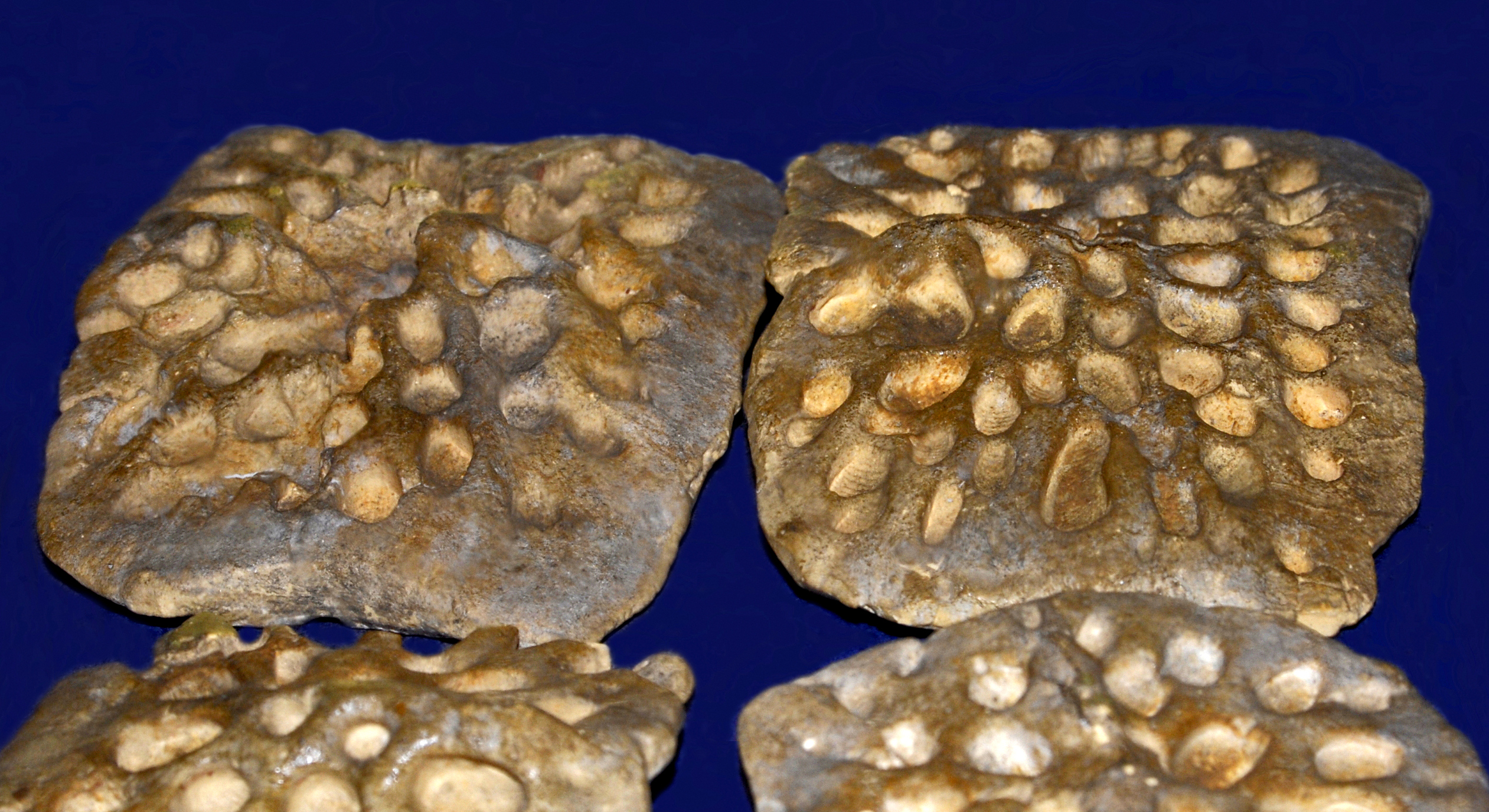 Fossil dorsal plates of Tomistoma calaritanus, on display at Museo Geologico G. Cappellini, Bologna